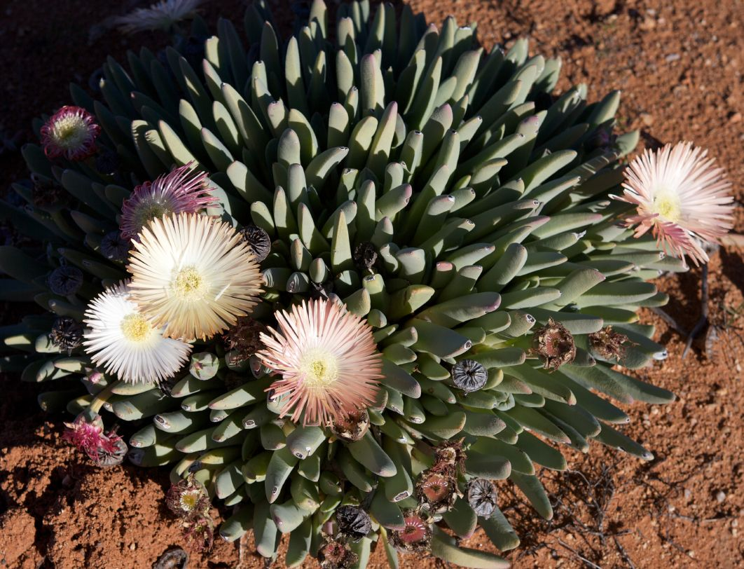 Cheiridopsis denticulata Along the N7, near Springbok